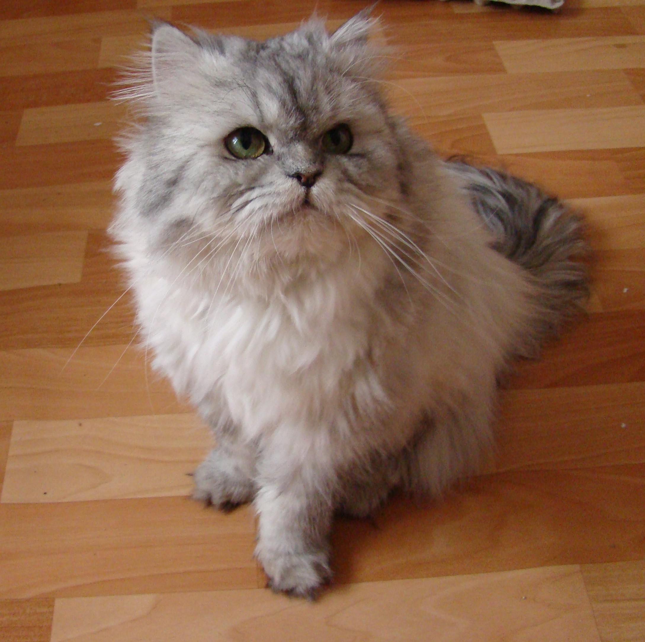 Doll face silver Persian cat